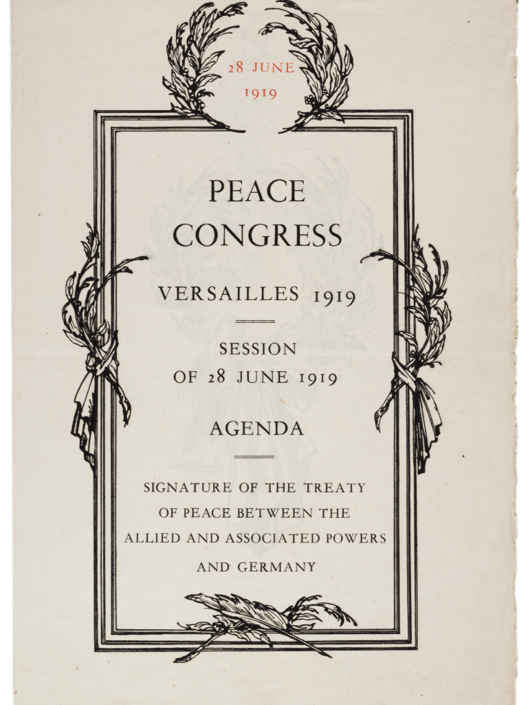 Versailles